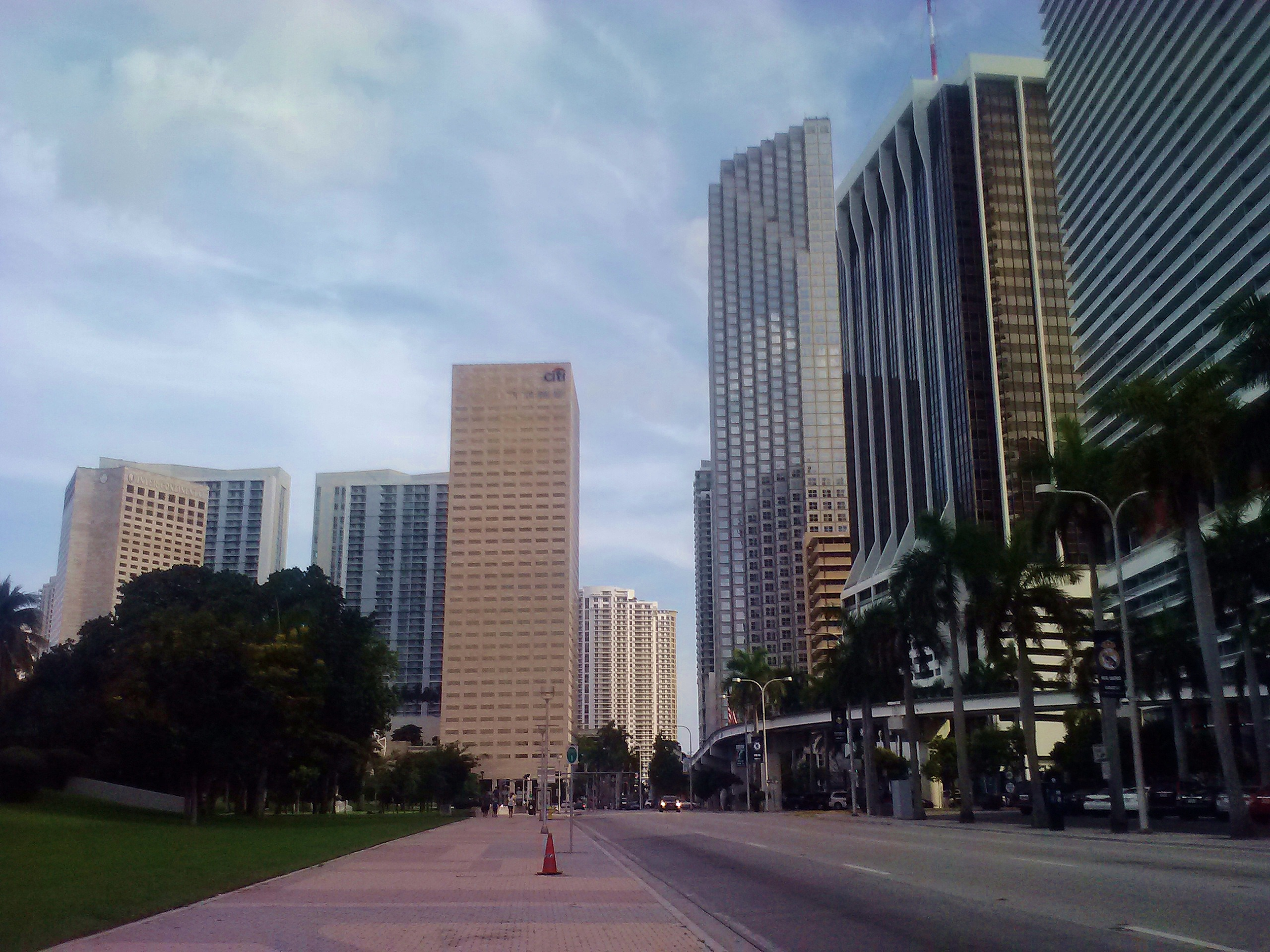 Southern view of Biscayne Boulevard in Downtown Miami.